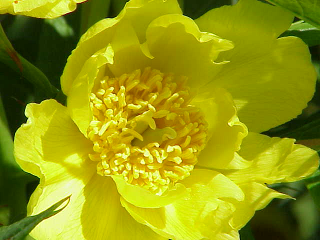 Species: Paeonia lutea Family: Paeoniaceae Image No. 1